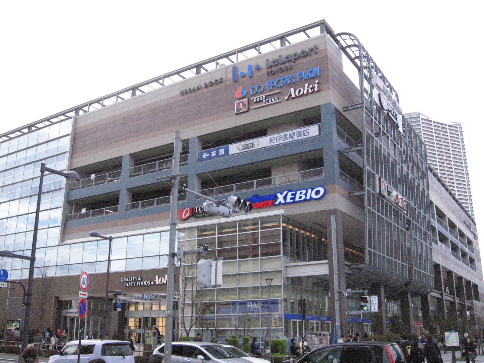 Urban-Dock LaLaport Toyosu Annex building.